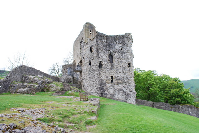 Peveril Castle Keep View of the castle from within the grounds. See Peveril_Castle for details